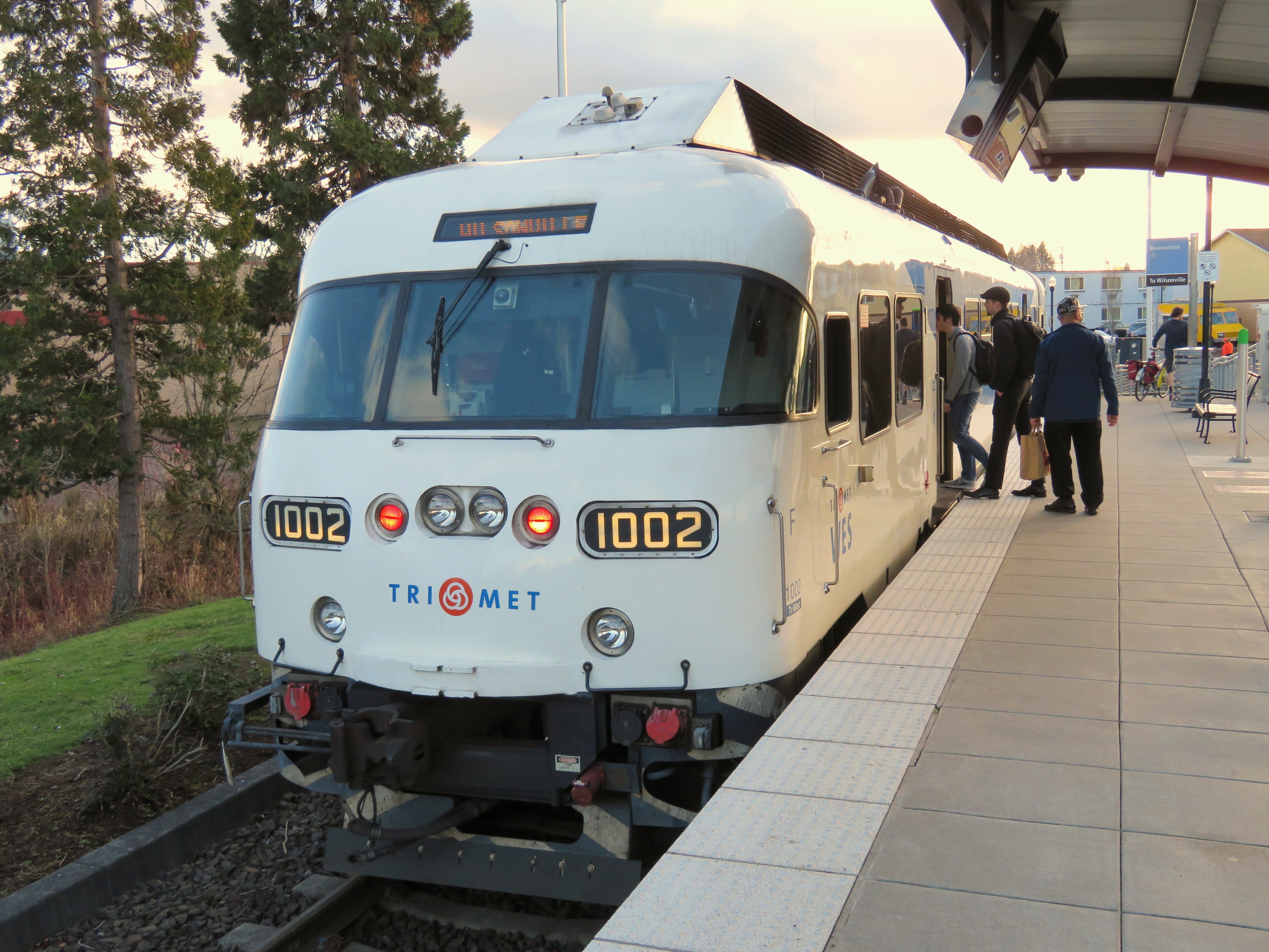 WES #1002 at Beaverton Transit Center in February 2018